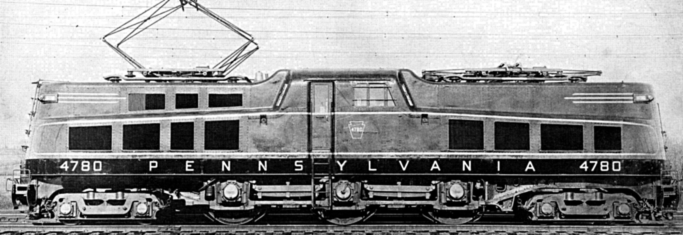 Pennsylvania Railroad class P5a (modified) electric locomotive. Public domain under US law due to publication without a copyright notice in 1946.